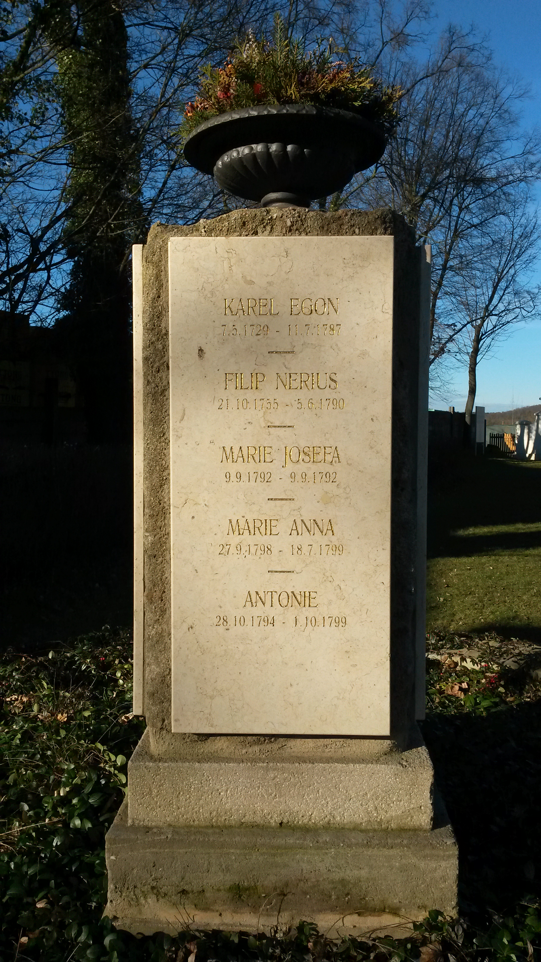 Fürstenberg Tomb in Nižbor